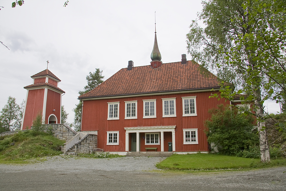 Løkken chapel in Sør-Trøndelag, Norway.